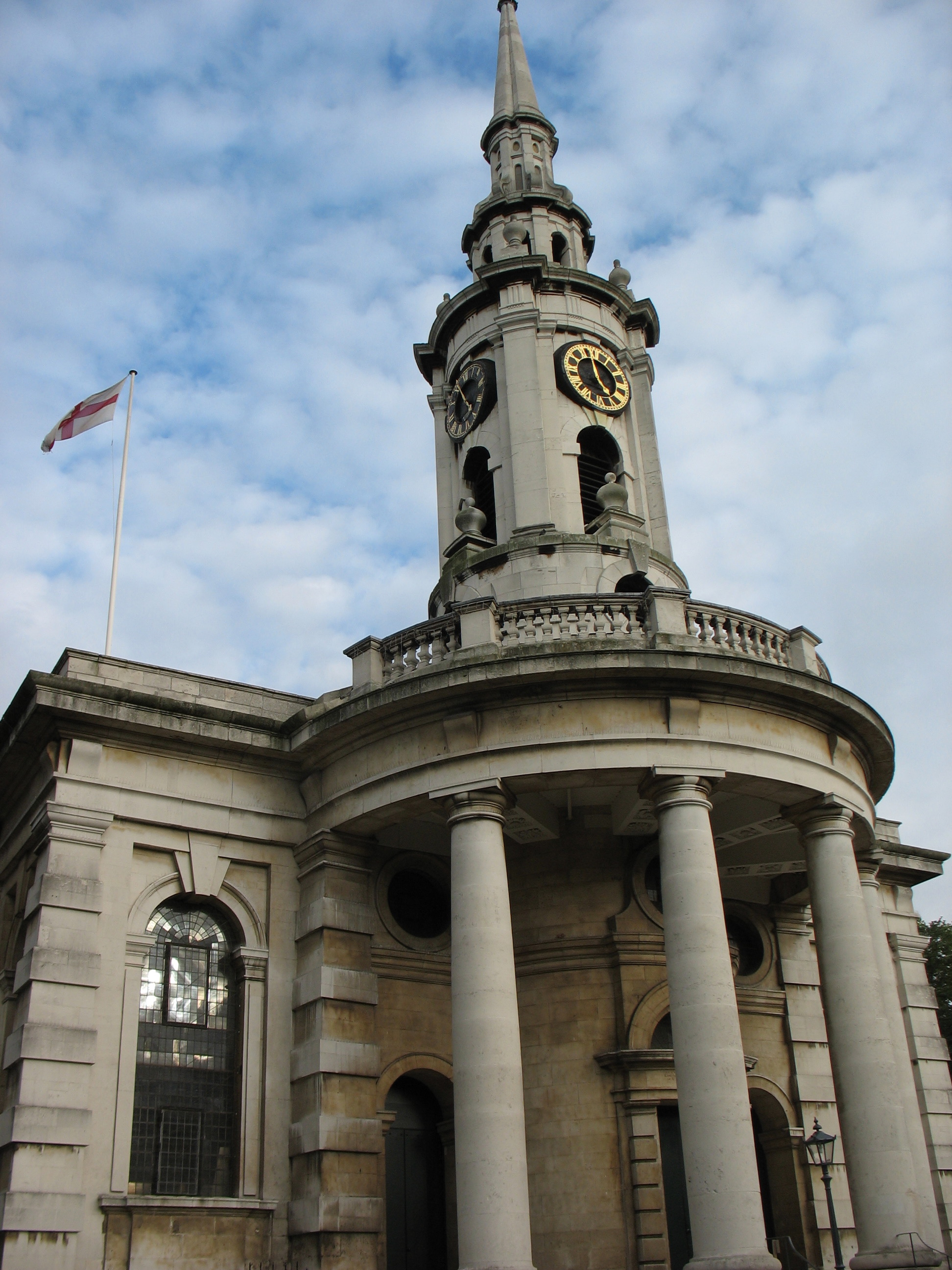 St. Paul's Church in Deptford, London, EnglandSt. Paul's Church - Deptford